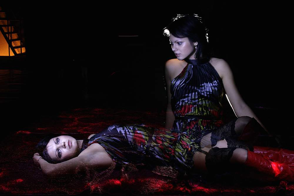 Painting with light - Paweł Matyka.